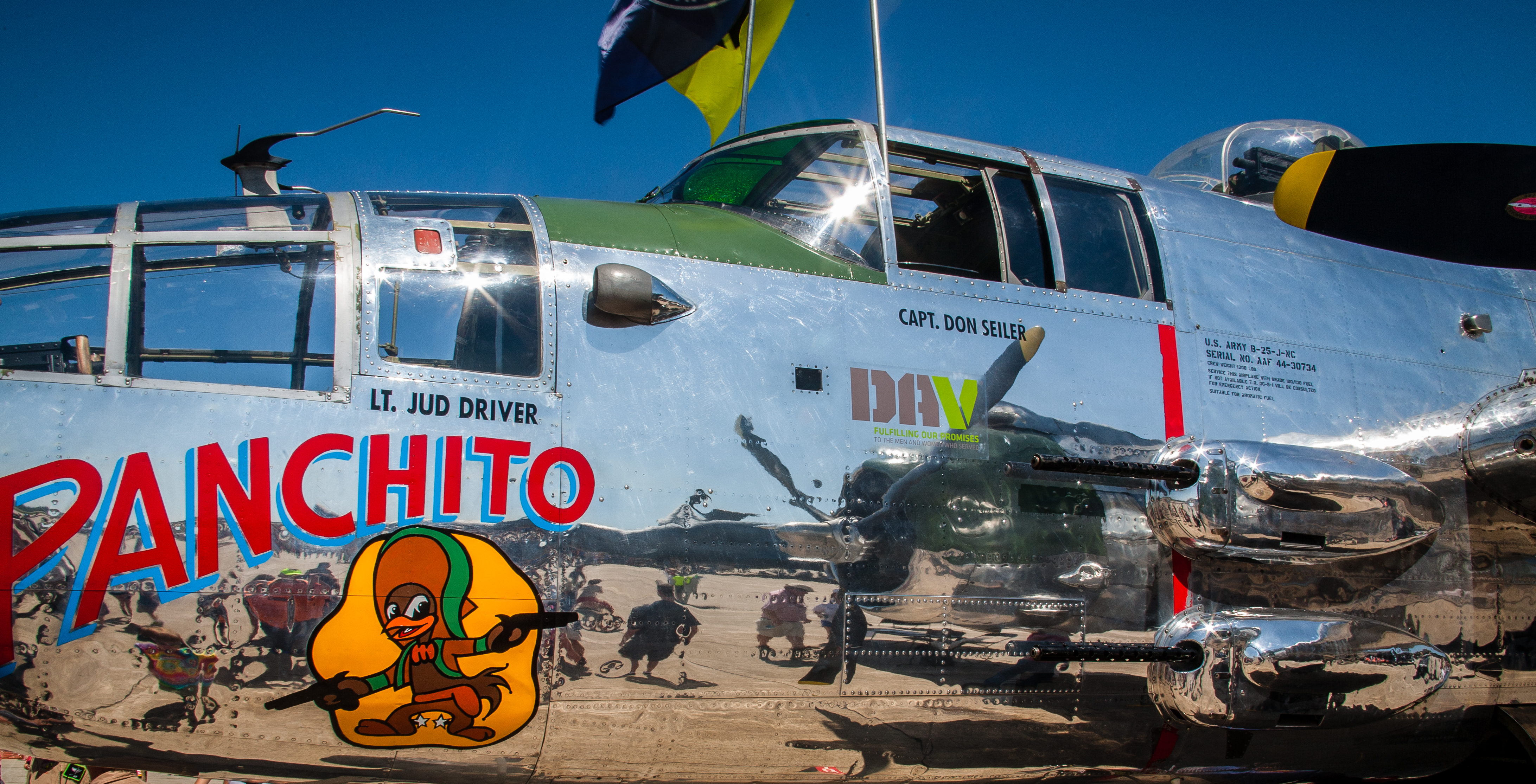 A couple more from The Great State of Maine Air Show where this WW II era B-25 bomber was on display and also flew as one of the performing planes. It was mostly a cloudless mid-day situation so there was lots of harsh light. The plane has been polished perhaps for eye appeal. Originally it was painted. It is named Panchito The North American B-25 Mitchell is an American twin-engine, medium bomber manufactured by North American Aviation. It was named in honor of Major General William "Billy" Mitchell, a pioneer of U.S. military aviation. Used by many Allied air forces, the B-25 served in every theater of World War II and after the war ended many remained in service, operating across four decades. Produced in numerous variants, nearly 10,000 Mitchells rolled from NAA factories.[1] These included a few limited models, such as the United States Marine Corps' PBJ-1 patrol bomber and the United States Army Air Forces' F-10 reconnaissance aircraft and AT-24 trainers. [Wikipedia] The original “Panchito”, named after the feisty rooster from Disney’s animated musical The Three Caballeros, was a bomber with the 396th Bomb Squadron, 41st Bomb Group, 7th Air Force, stationed in the Central Pacific. After several attacks on various Japanese strongholds in Southern Japan as well as Japanese help Eastern China, she was scheduled for another bombing run to Japan on the day the Japanese surrendered. [Air show web site]